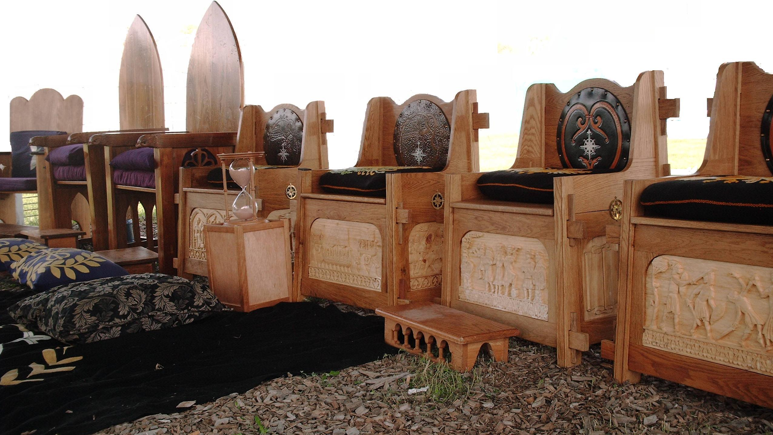 Photo I took of thrones set up for royal courts at a Society for Creative Anachronism event in Preston, Minnesota on 2006-05-28. CC & GFDL.